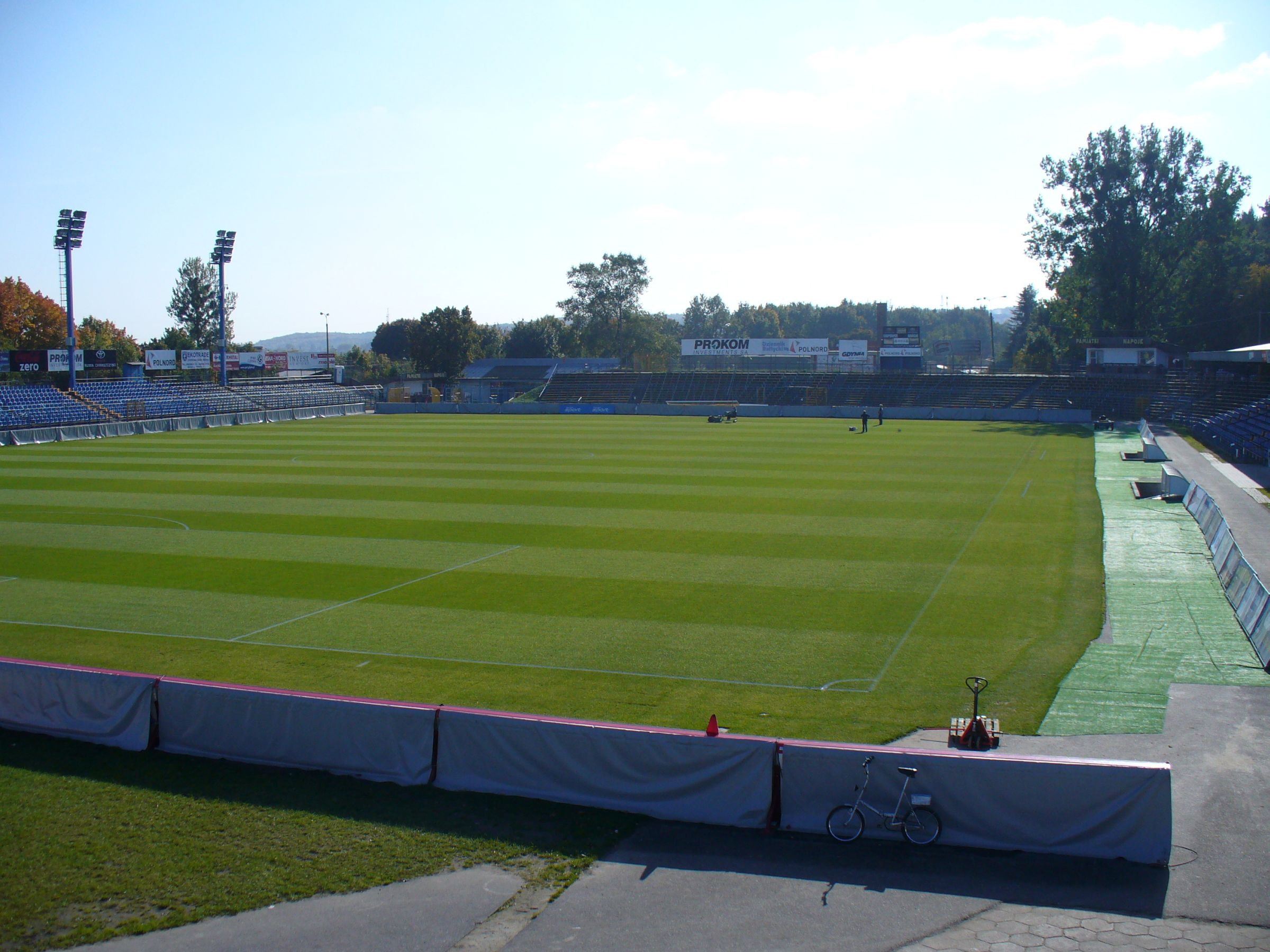 Poland, stadium GOSiR in Gdynia